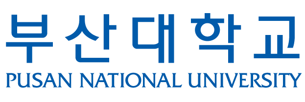 Logotype of Pusan National University.